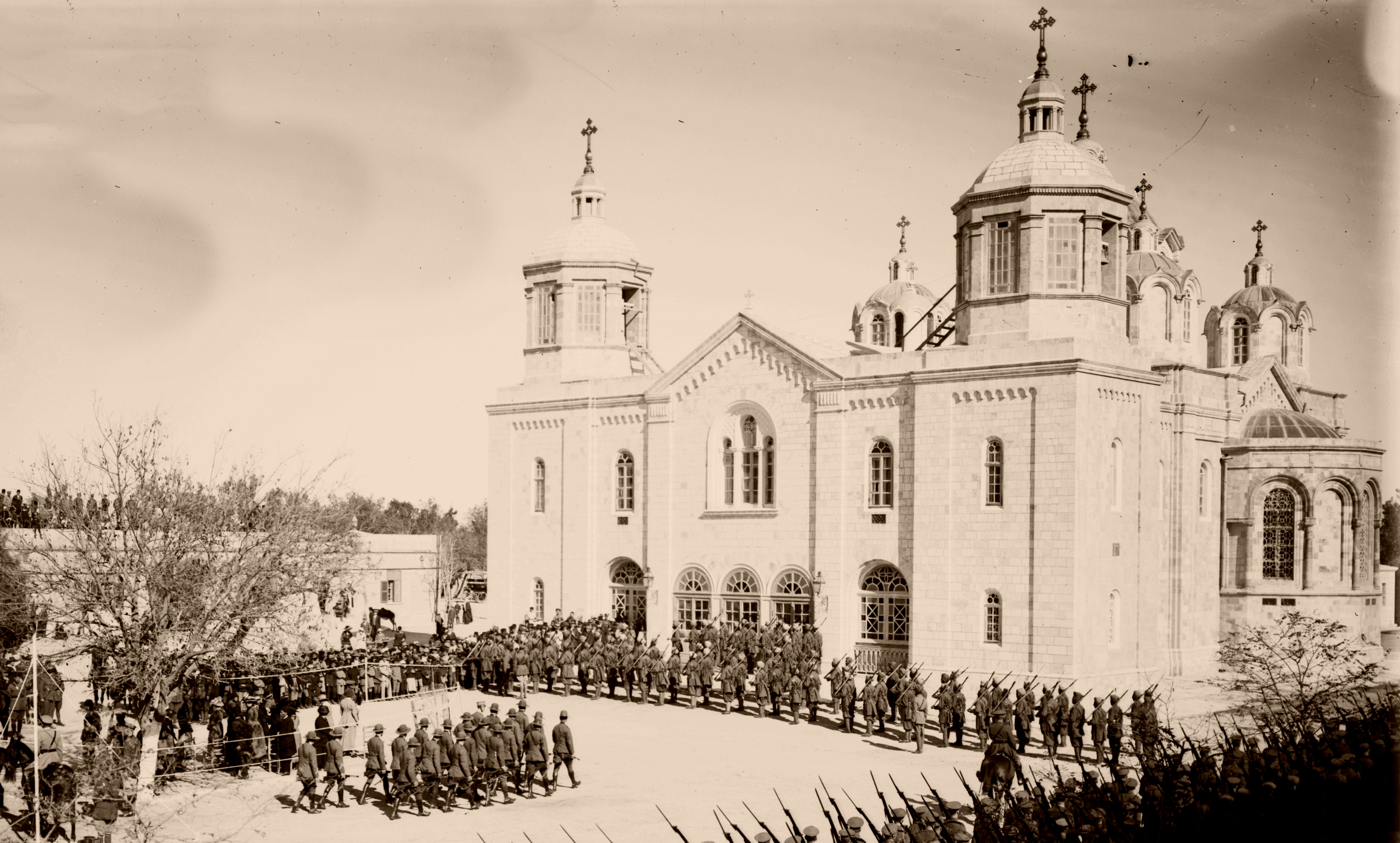 Allenby parade & inv. [i.e., investiture]